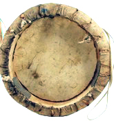 flat drum's side.('parai') used in Tamilnadu, one of the state in India. It is a simple and having many sensible rhytham